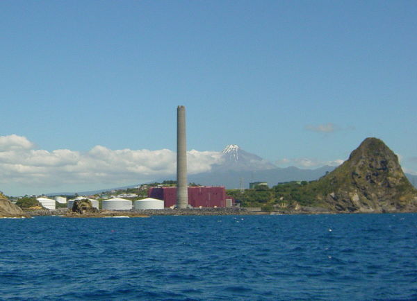 New Plymouth Power Station, looking south